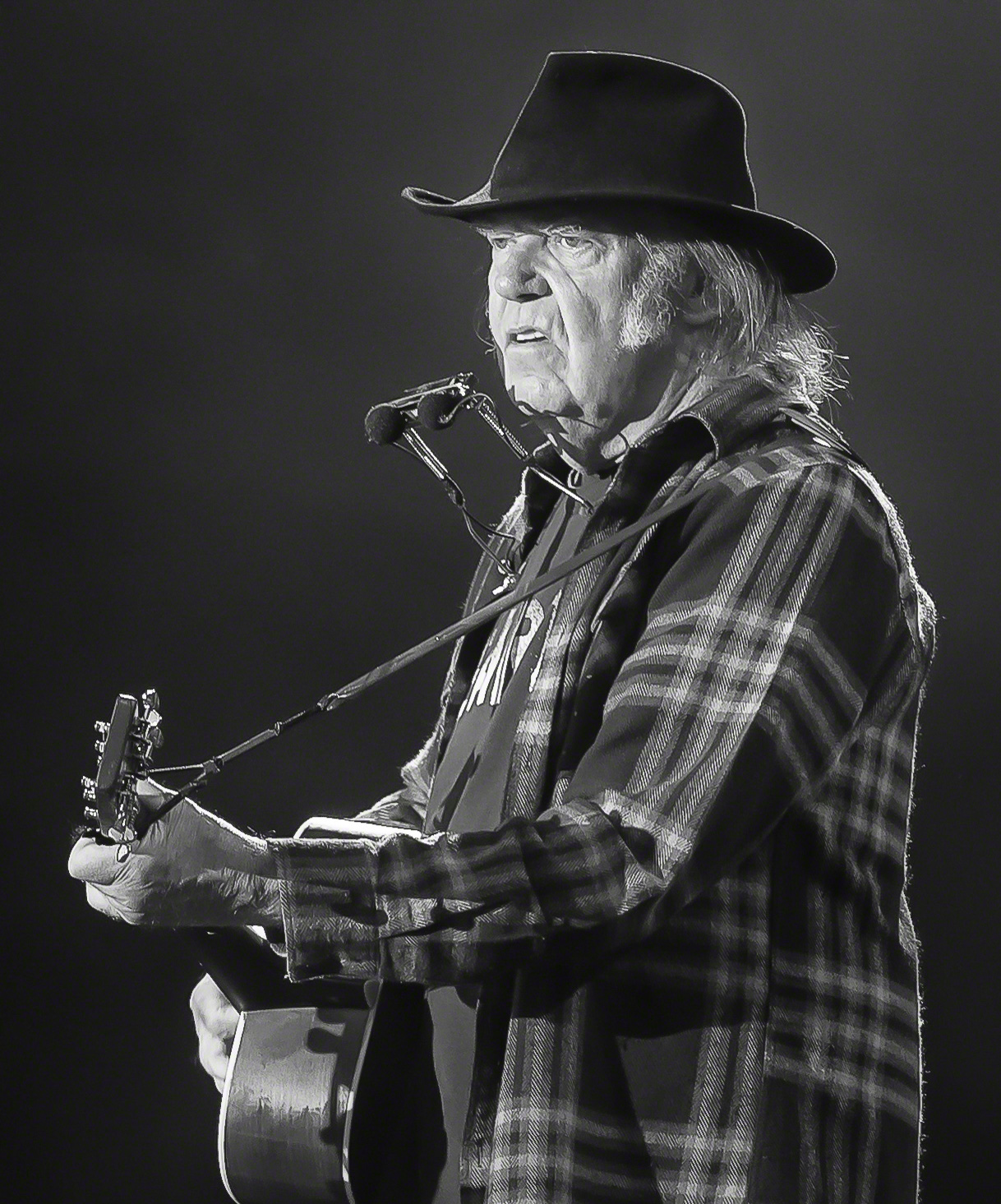 Neil Young and Promise of the Real at the main stage of Stavernfestivalen in Norway on 07. July 2016. Lineup:Neil Young (guitar / vocal)Lukas Nelson (guitar)Corey McCormick (bass)Micah Nelson (guitar)Anthony Logerfo (drums)Tato Melgar (percussion)